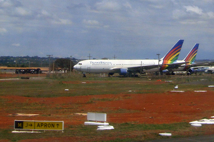 Abandoned TransBrasil airplanes at JK International Airport, Brasilia, Brazil (the extinct airline main hub)